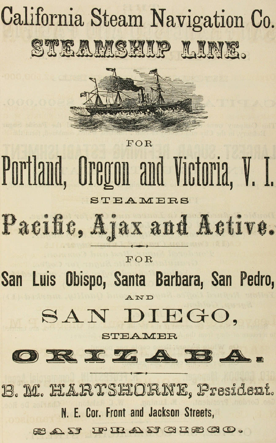 In 1854, a group of steamship captains formed the California Steam Navigation Company. Over the next decade, the company established a monopoly on inland water travel in California. Geographic coverage: United States Subjects (LCTGM): Ships; Steamboats Categories: Steamships, ferries and boats; Transportation and communication